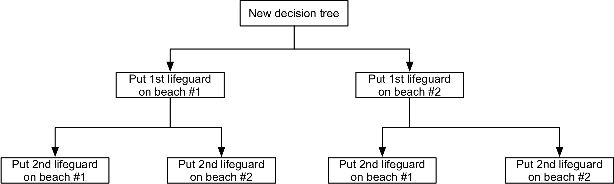 Decision tree for classical allocation of lifeguards on beaches